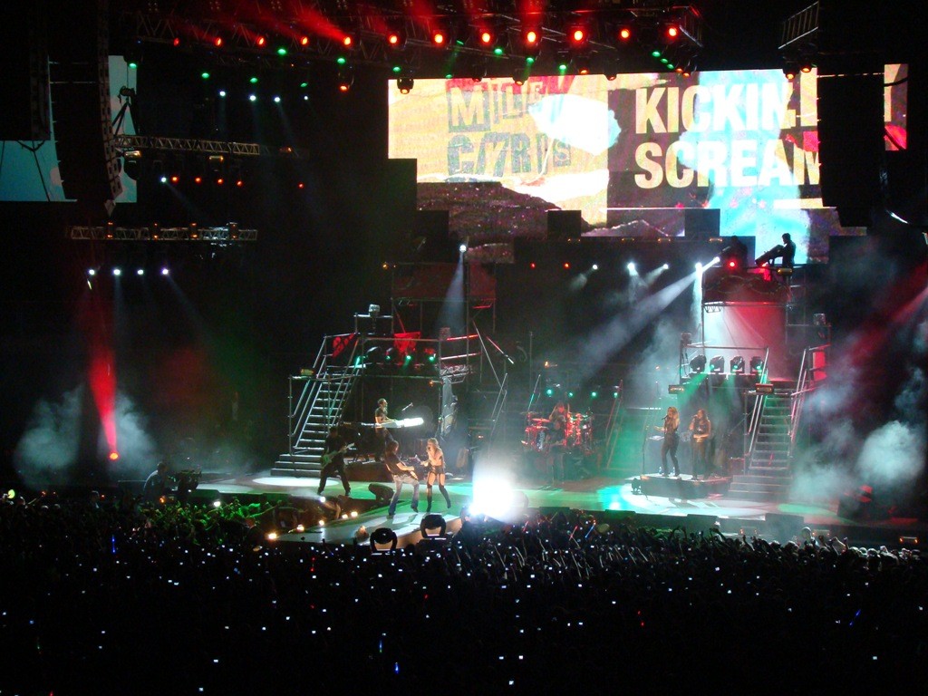 Miley Cyrus singing live in Curicica, Rio de Janeiro, RJ, BR from her tour 'Gypsy Heart'